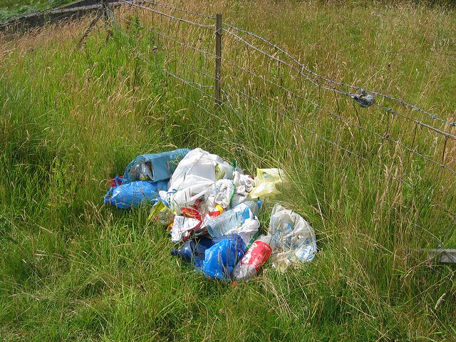 Litter, Greenside. The Kilpatrick Hills are covered in litter. Here is a small sample by the Greenside Dam.